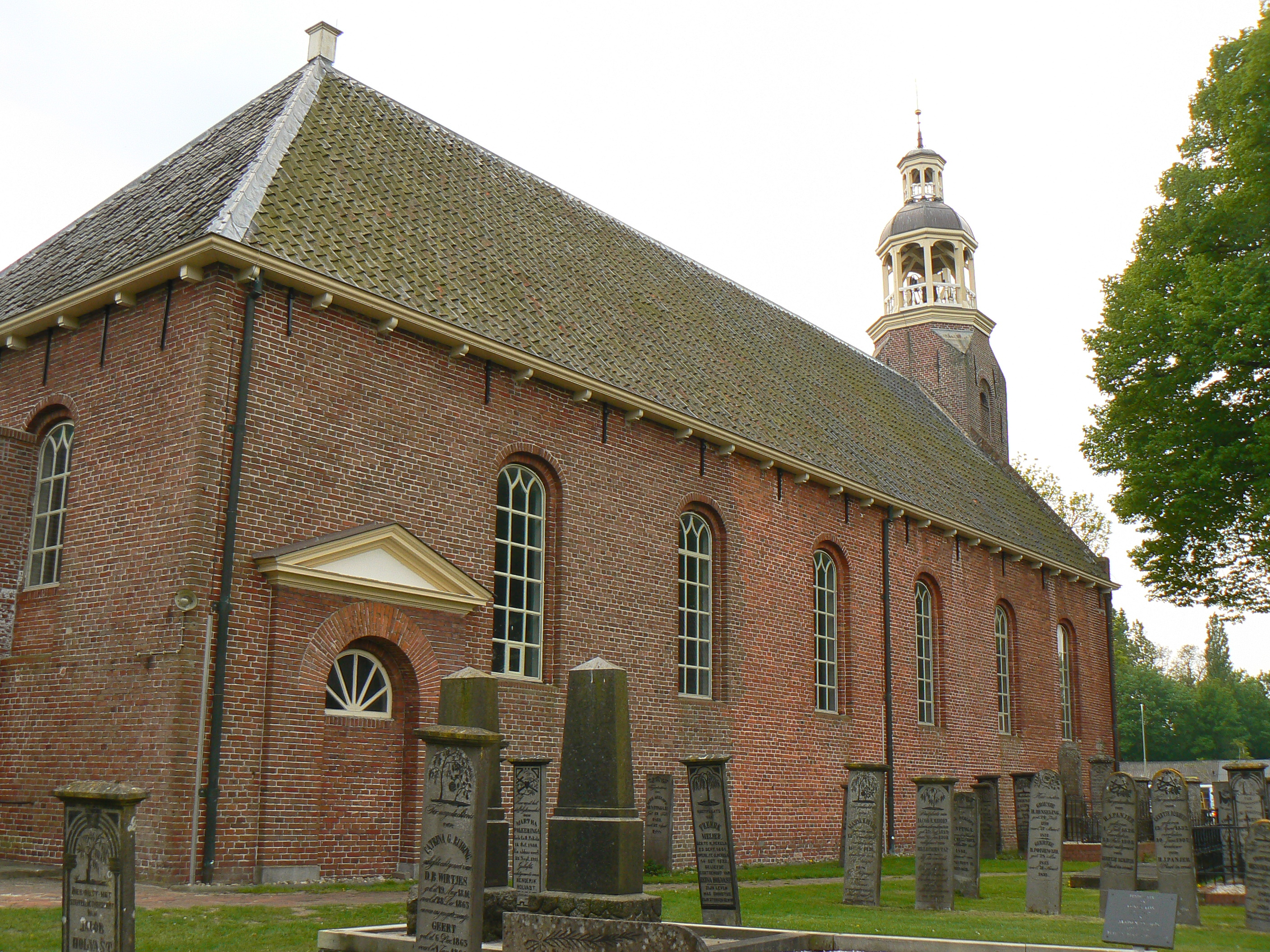 NH Kerk in Pekela/The Netherlands: exterior.